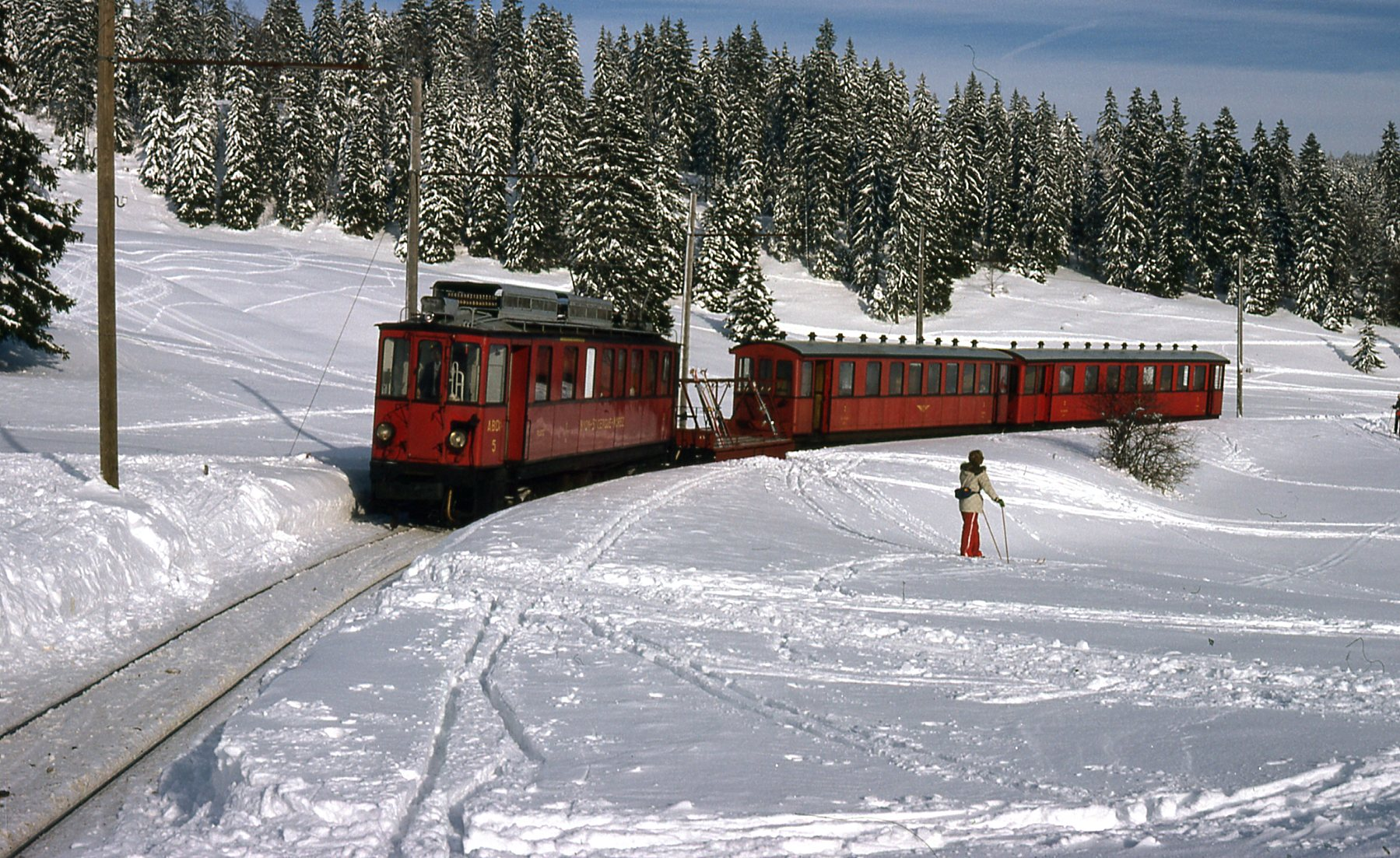 Narrow gauge railway Nyon–Saint-Cergue–La Cure (between 1975 and 1985)